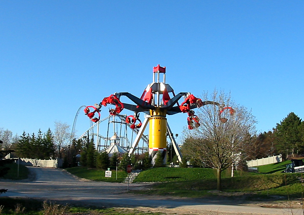 This is a photo of Sledge Hammer at Canada's Wonderland during the 2007 season.